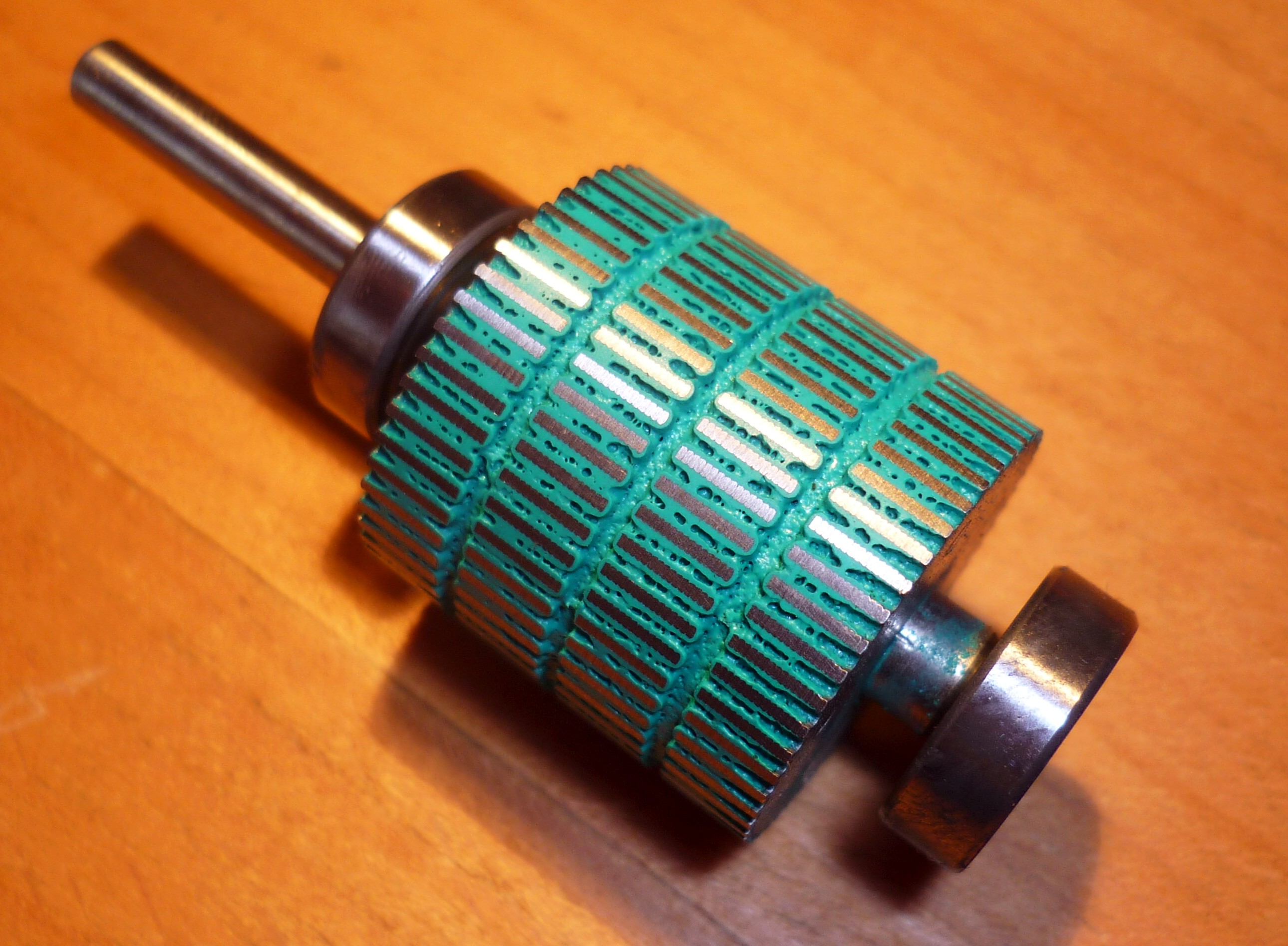 Stepper motor (rotor) MICROCON SX17-1705; 0.5Nm; 1.7A; 0.35kg